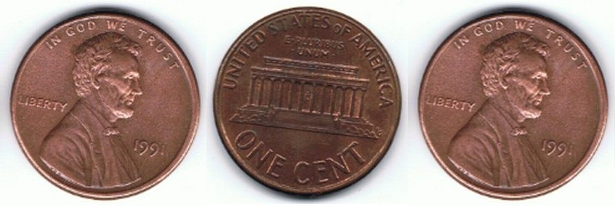 Three United States cents (1991) showing heads, tails, heads.